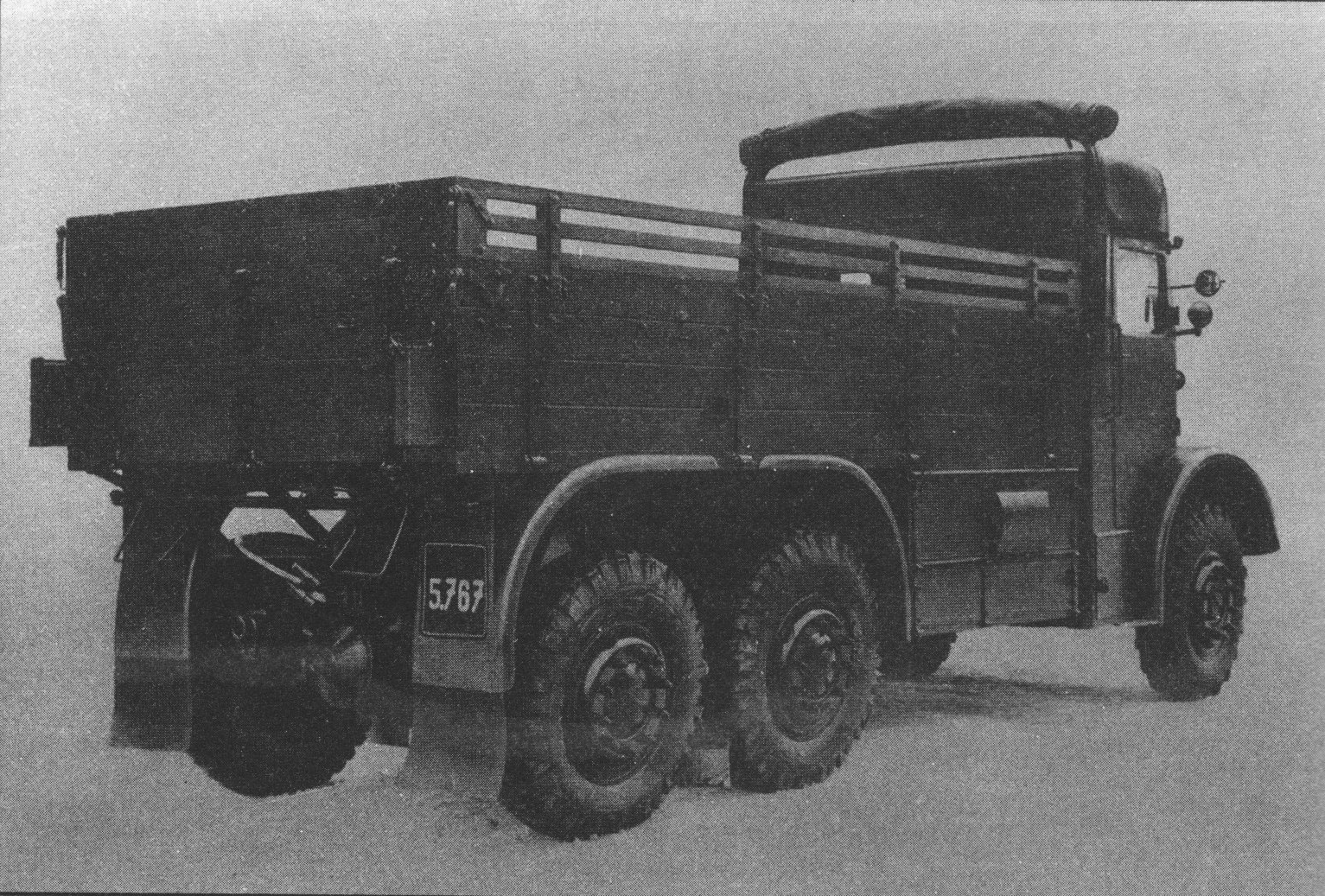 Tatra 85